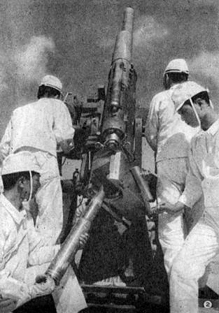 Crewmen of a Imperial Japanese Navy ship preparing a Type 3 80-mm-AA-gun to fire.